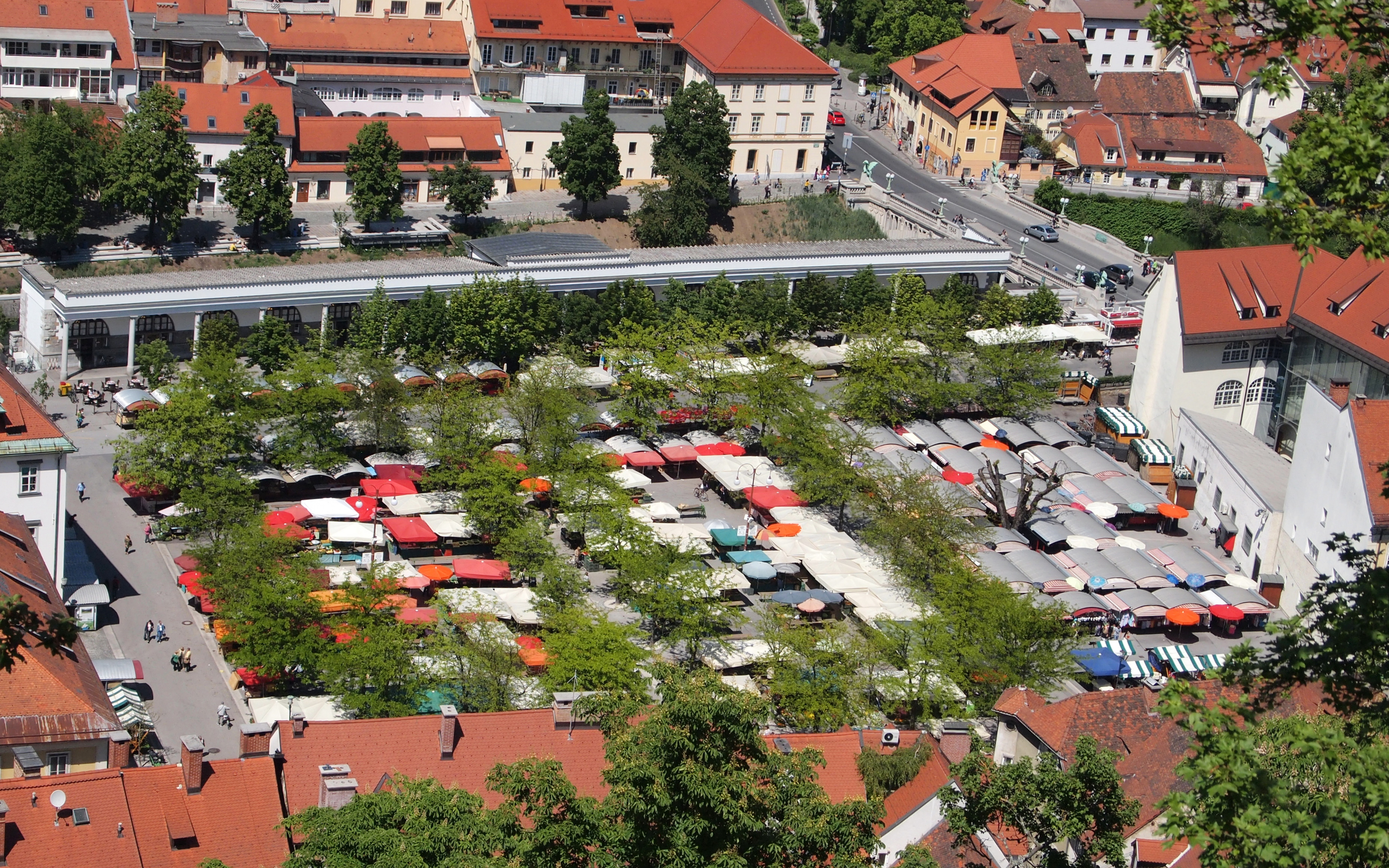 Central Market in Ljubljana. This photograph was taken with a Olympus E-PL1.